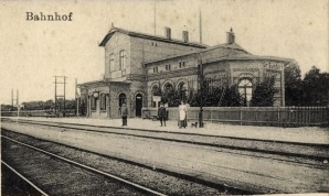 Station of Groß Gandern